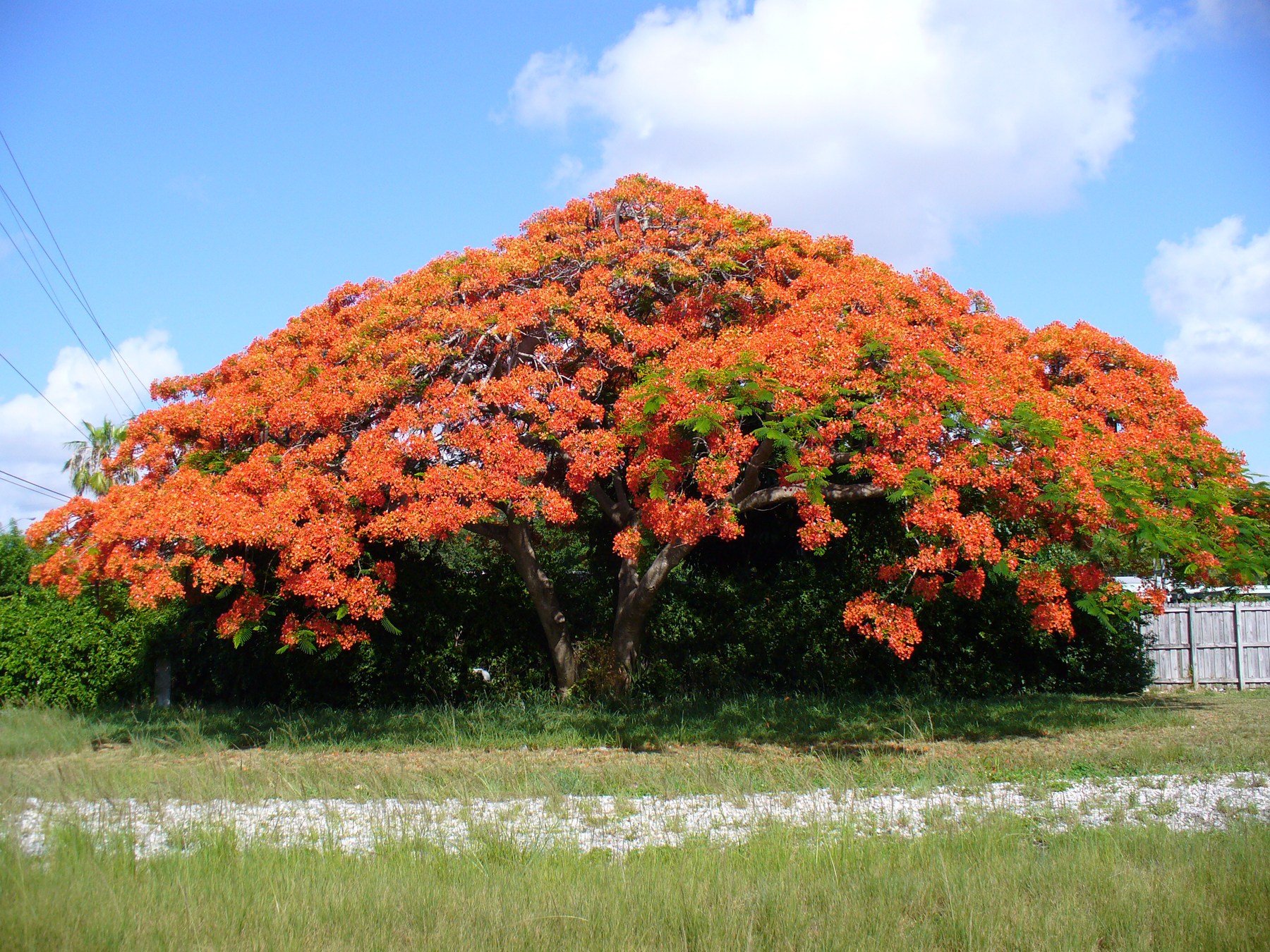 Delonix regia, South Miami, FL, USA.